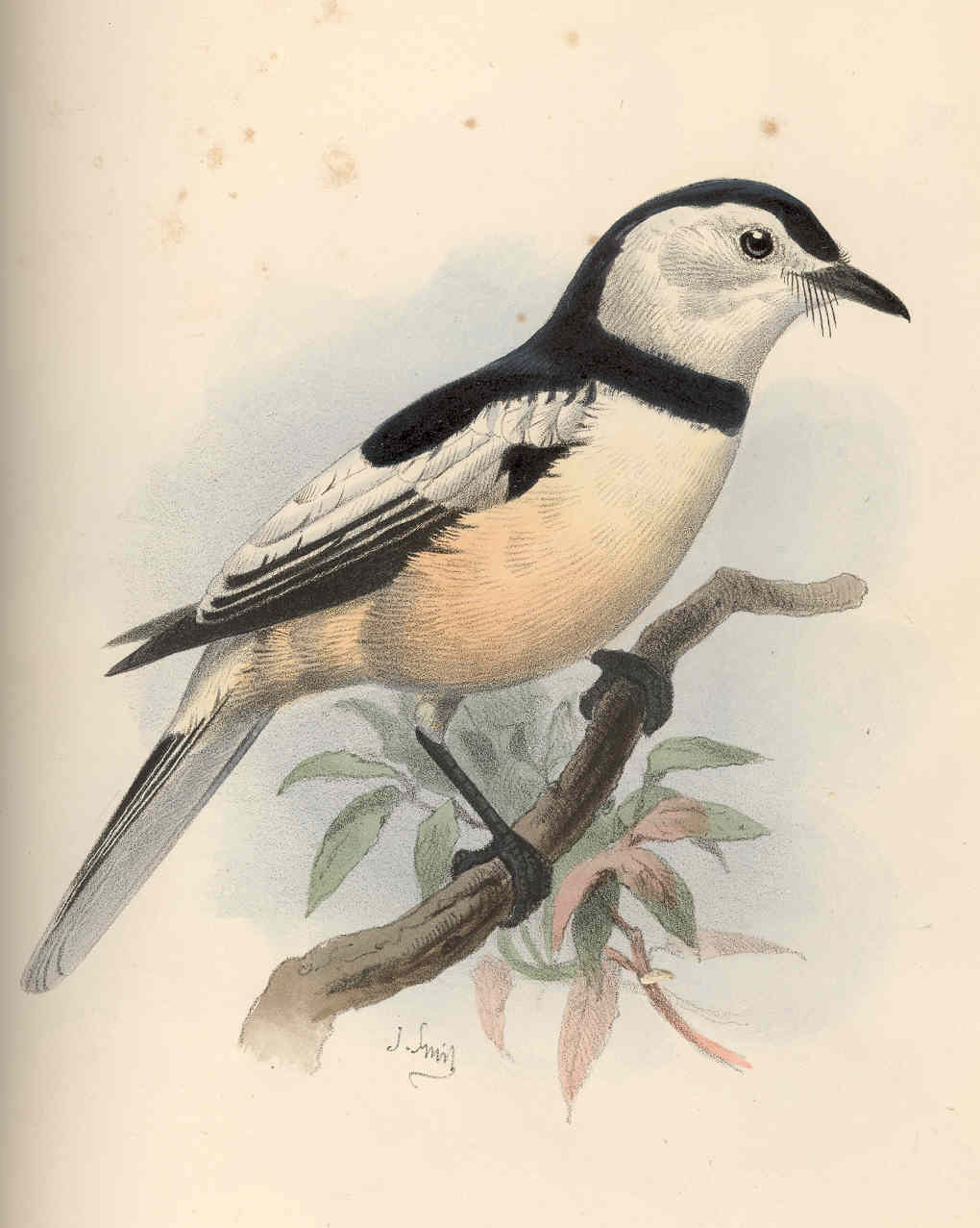 Lalage banksiana Subject: Lalage Tag: Birds